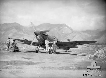 Goodenough Island, D'Entrecasteaux Islands, Papua. July 1943. The pilot and support crew of No. 79 Squadron RAAF Spitfire Mk Vc on "standby" with battery cart plugged in for engine starting. 401000 Pilot Officer D. (Doug) Scott, GD pilot, is second from the right.